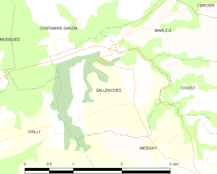 Map of French municipality Sallenôves